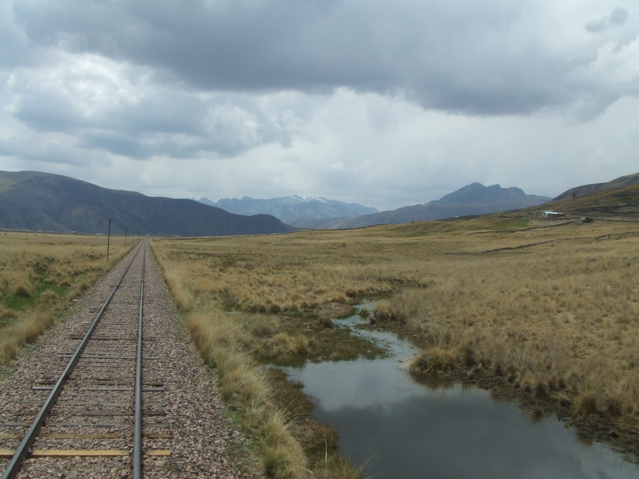 The Cuzco - Puno line on the Alti Plano" taken from The Andean",10/07.